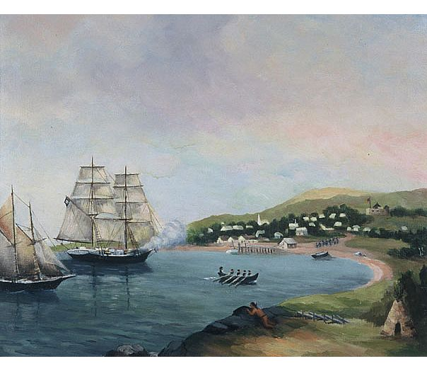 Sack of Lunenburg, Nova Scotia, Canada (1782)